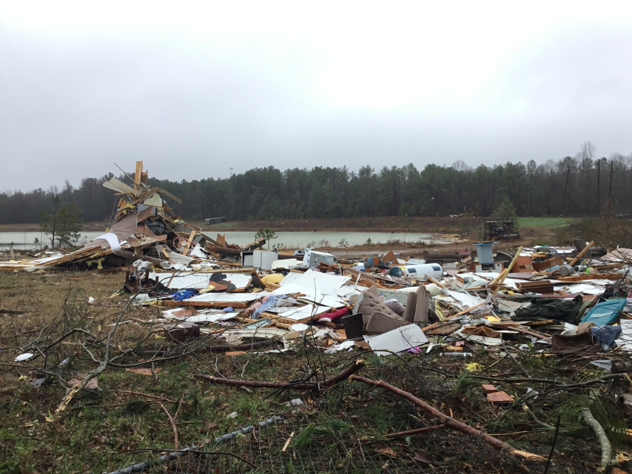 The remains of a double-wide mobile home near Bossier City Louisiana that was destroyed by an EF2 tornado on January 10, 2020. Two people inside were killed.